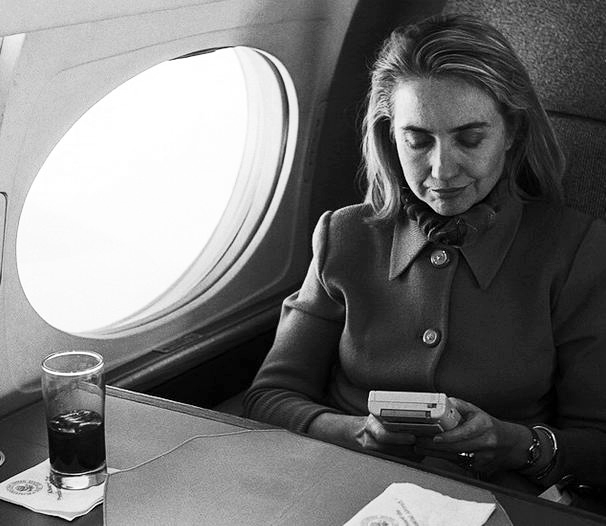 Title: Photograph Contact Sheets from March 19, April 4-6, 1993 Description: Hillary Rodham Clinton playing a Nintendo "Game Boy" video game on the flight from Austin en route to Washington, DC To request a high resolution scan of a photograph please email us at and refer to the photo by its Clinton Presidential photograph identifier, found in the caption of the photo with date and description if possible. Creator(s): White House Photograph Office Format: Adobe Acrobat Document Original Format: Negative Access Rights: Unrestricted Provenance: Photographs of the White House Photograph Office | Photographs Relating to the Clinton Administration Publisher: William J. Clinton Presidential Library & Museum